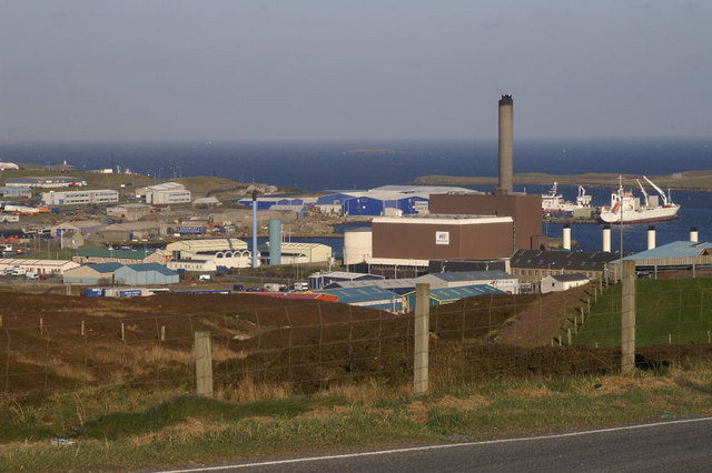 Gremista Lerwick power station from Staney Hill, with the Shetland Catch fish processing factory beyond it.